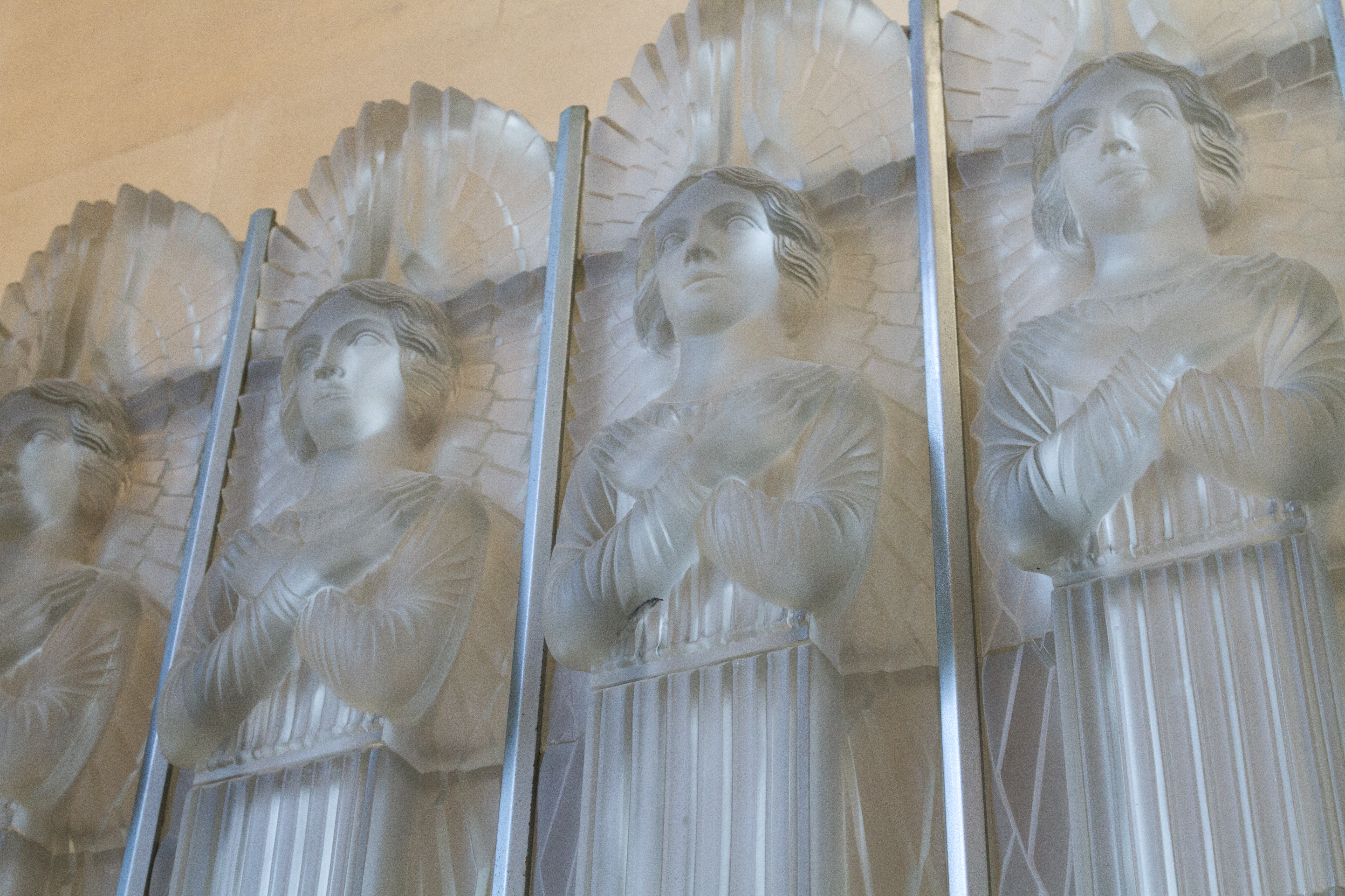 Lalique glass angels in St Matthew's Church in Jersey.